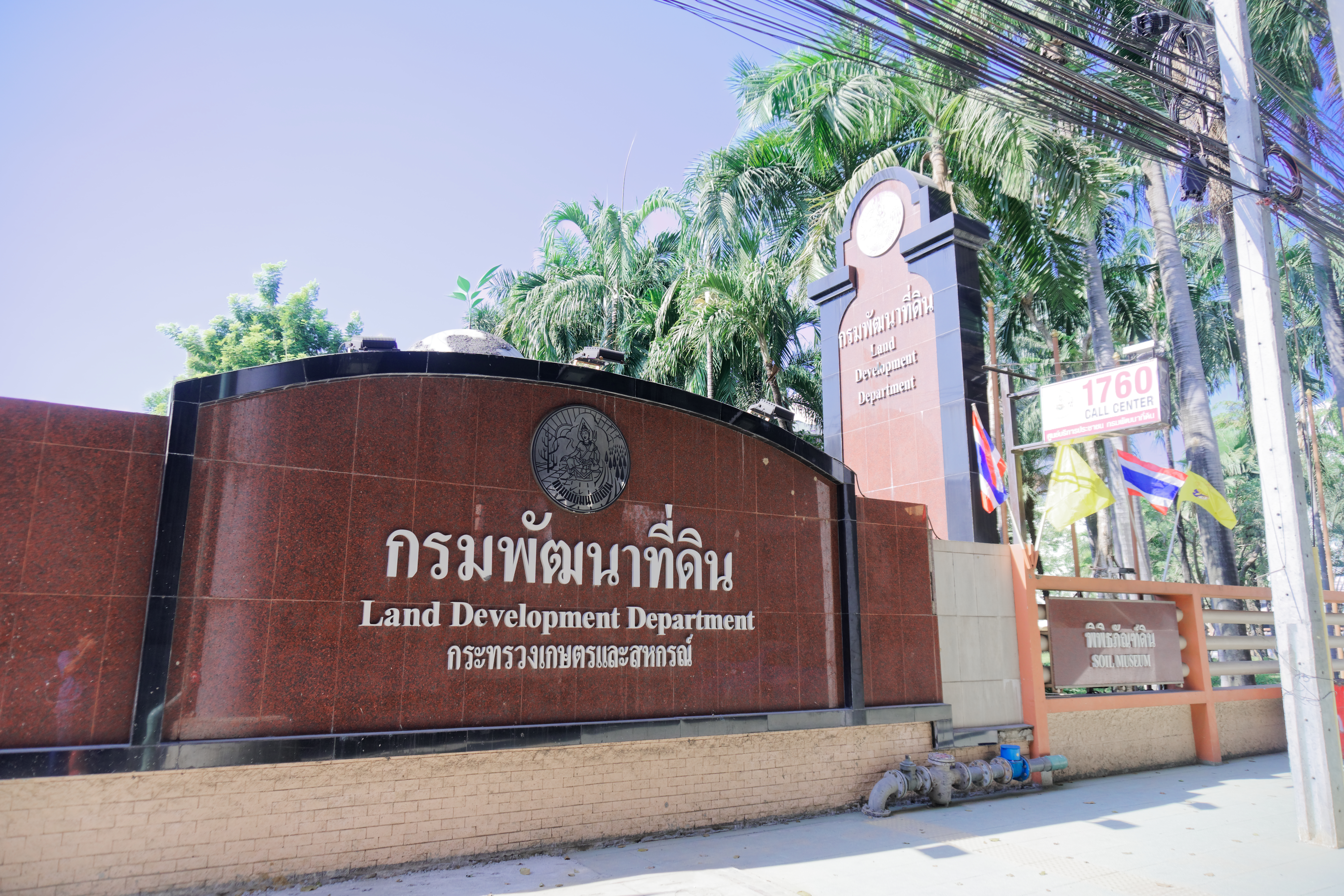 BTS Sena Nikhom - Department of Land Development sign